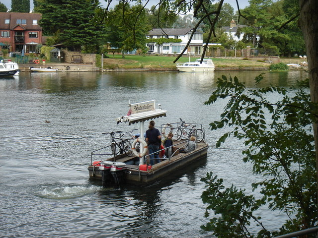 Shepperton to Weybridge Ferry, linking the towns of Shepperton and Weybridge across the River Thames in the English county of Surrey. For more information see the Wikipedia article Shepperton to Weybridge Ferry.